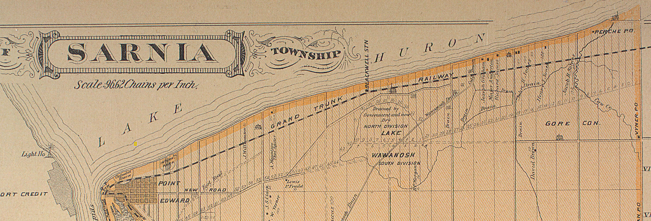 Map of Sarnia and Point Edwards, 1880